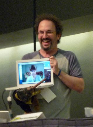 Robert Smigel, Doug Dale, Dino Stamatopoulos, and Tommy Blacha at the 2008 San Diego Comic-Con